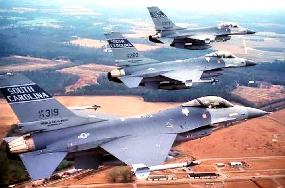 South Carolina ANG three-ship F-16A block 10 #79-319, #79-308 and #79-292 armed with only AIM-9 missiles on December 12th, 1989 [Photo by TSgt H.H. Deffner]